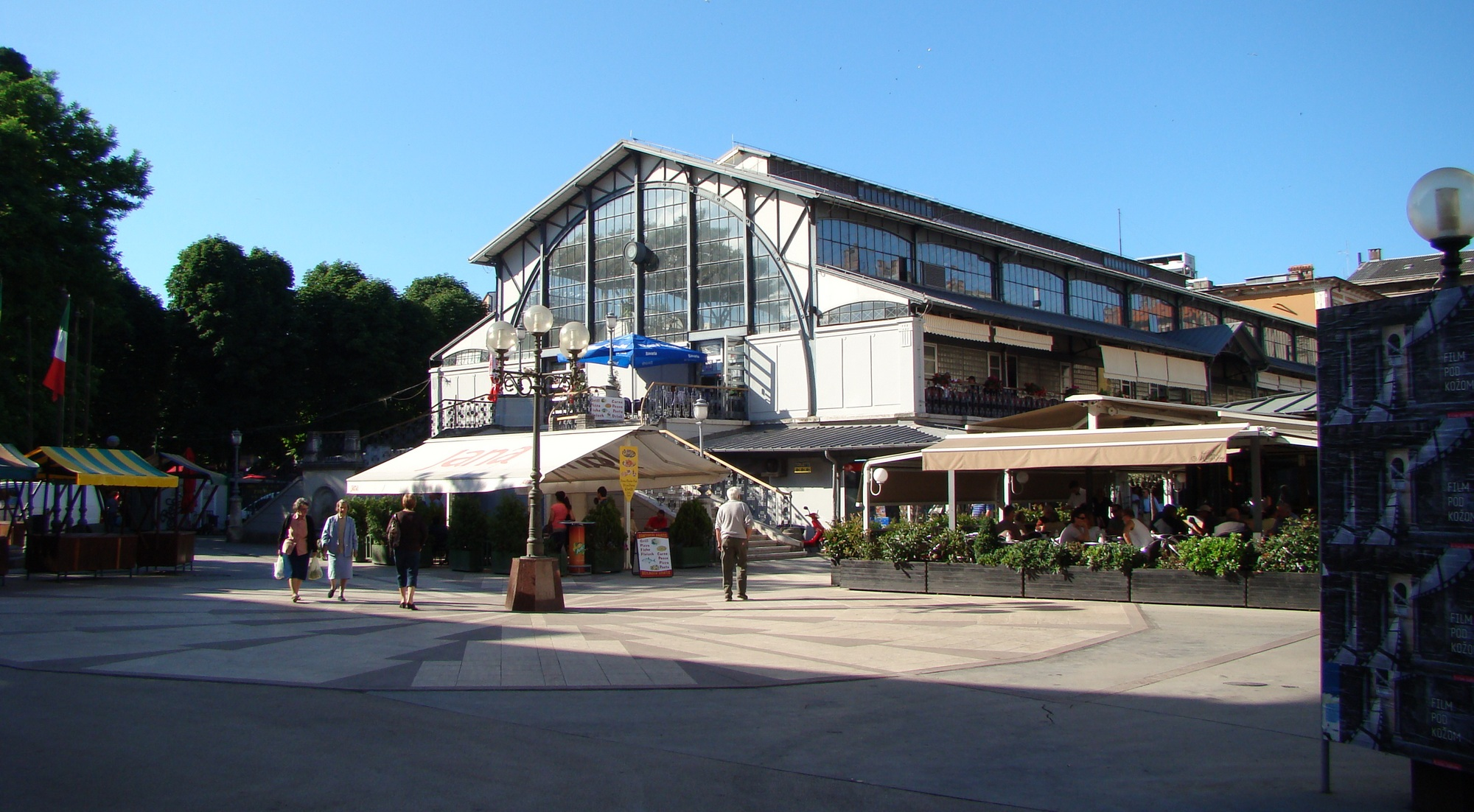 Pula market building